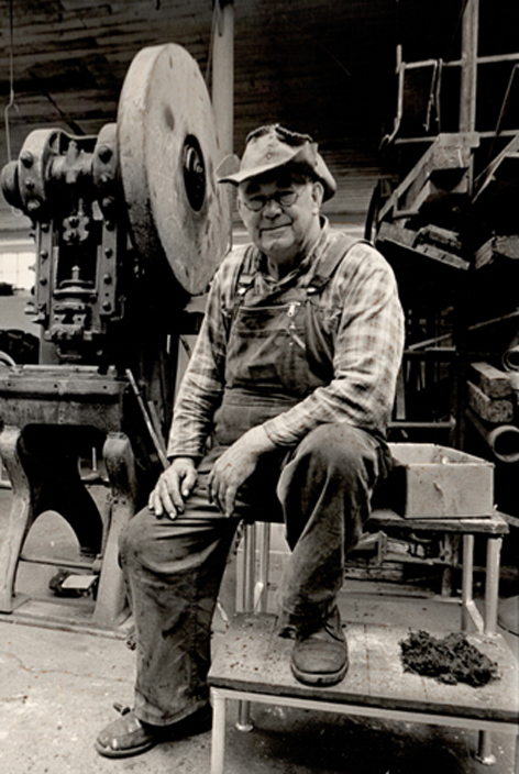 Cristian Øllgaard is the inventor of the chopper pumps